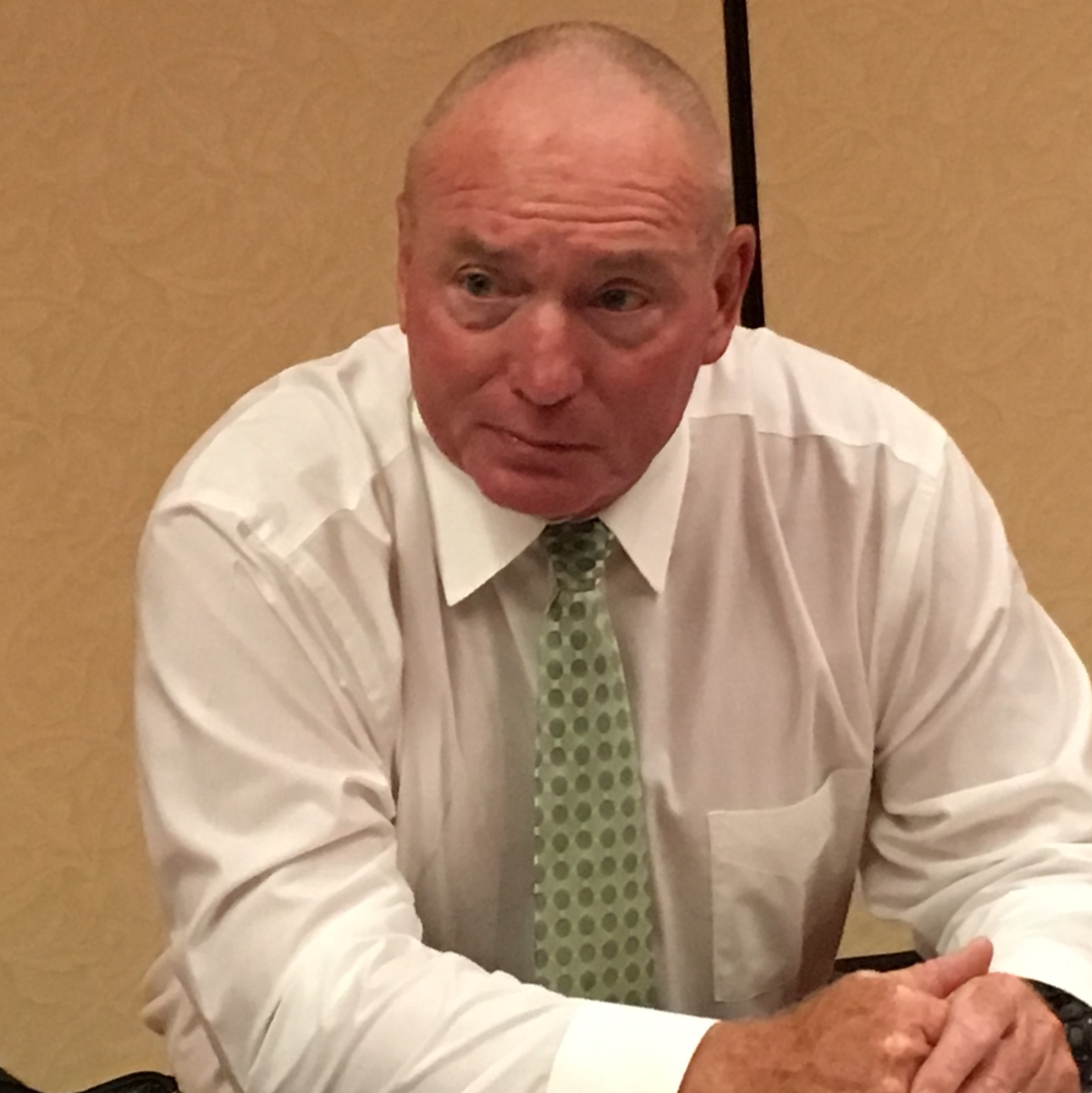 Doc Holliday, head coach of the Marshall Thundering Herd football team, at the 2017 Conference USA media days in Irving, Texas.